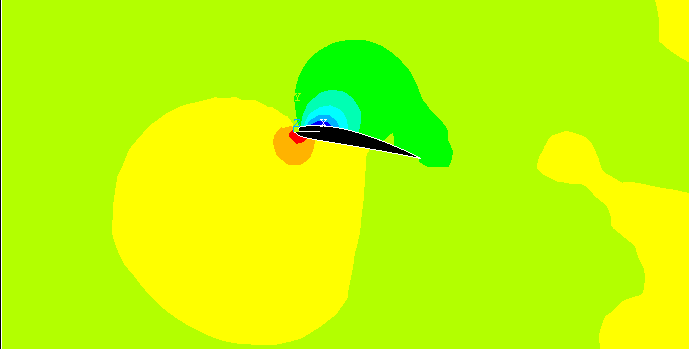 Simulation of an airfoil presure variation with 12 grades of attack in a laminar flow.